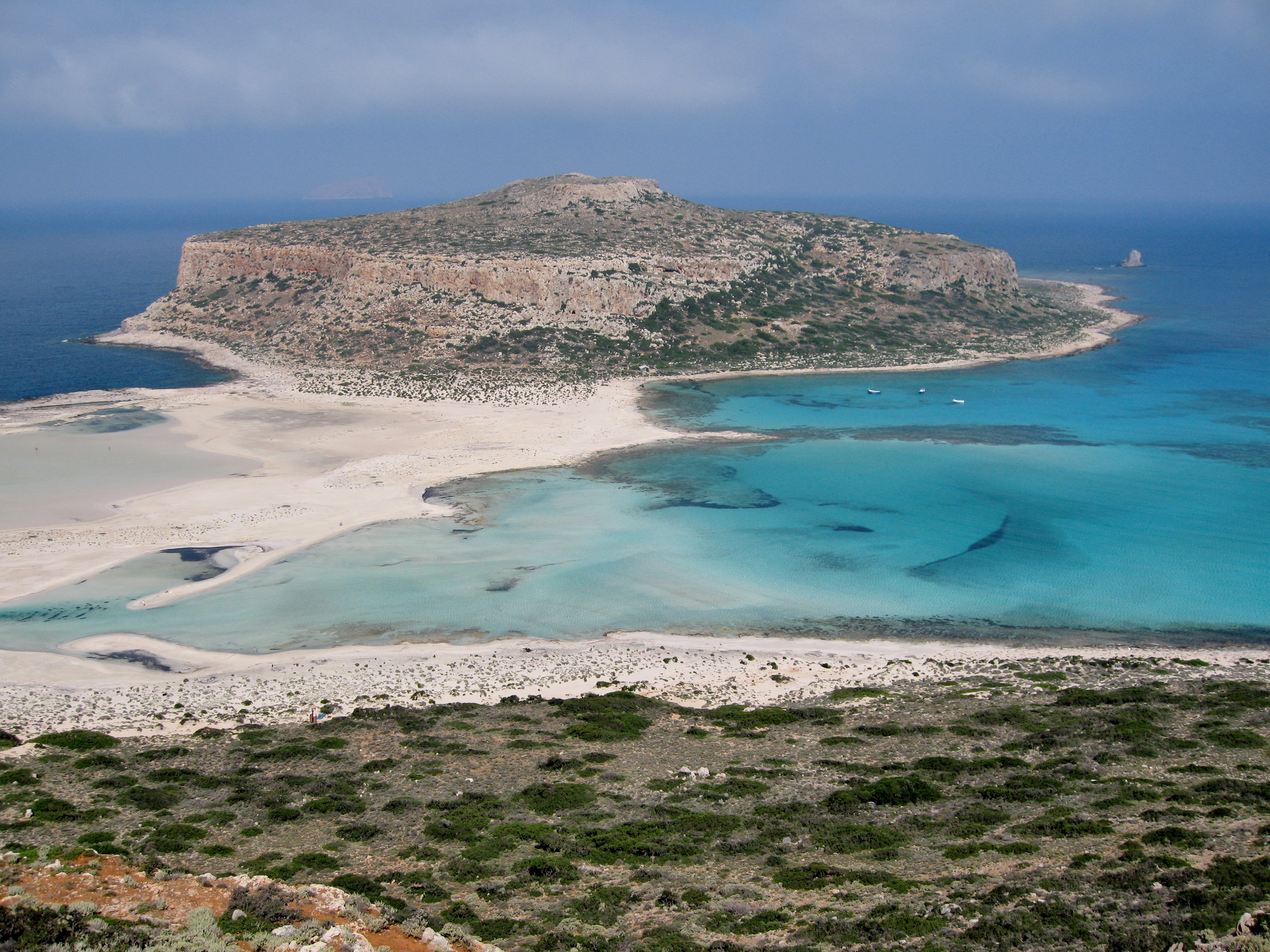 Cape Tigani (Ακρωτήρι Τηγάνι) at the Bay of Balos (Μπάλος), Municipality of Kissamos, Crete, Greece